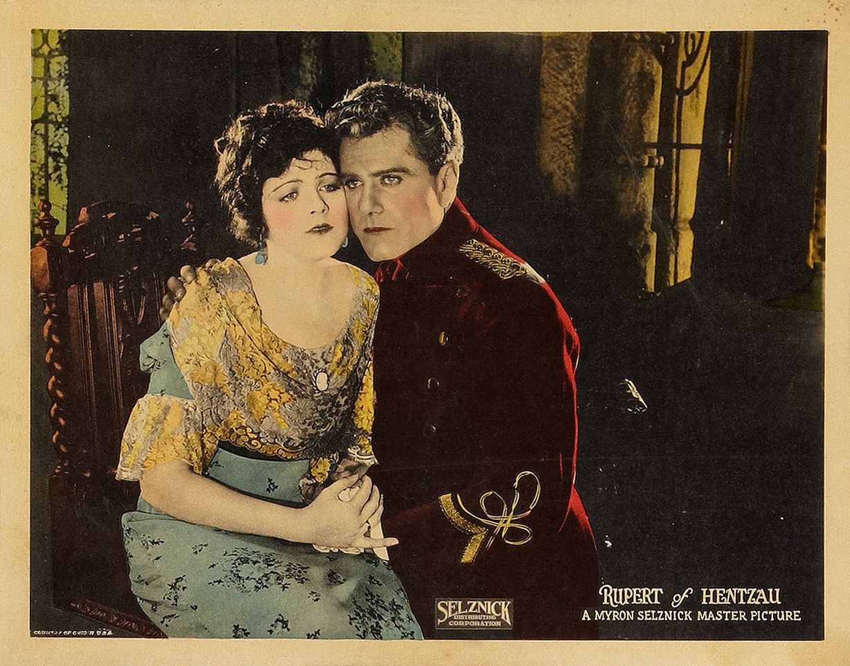 Lobby card for the 1923 film, Rupert of Hentzau, starring Bert Lytell and Elaine Hammerstein